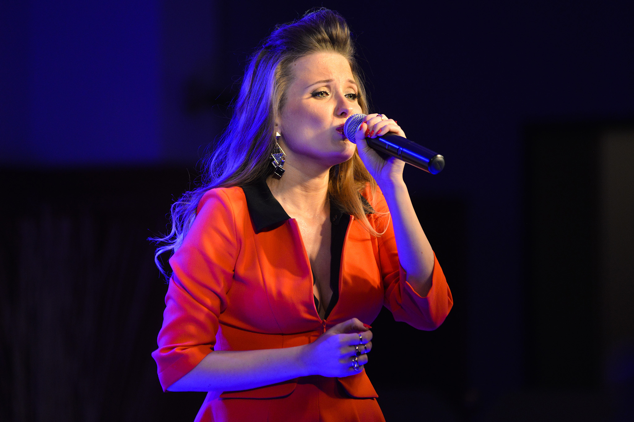 Gosia Andrzejewicz polish vocalist and musician during concert in Bielsko-Biala